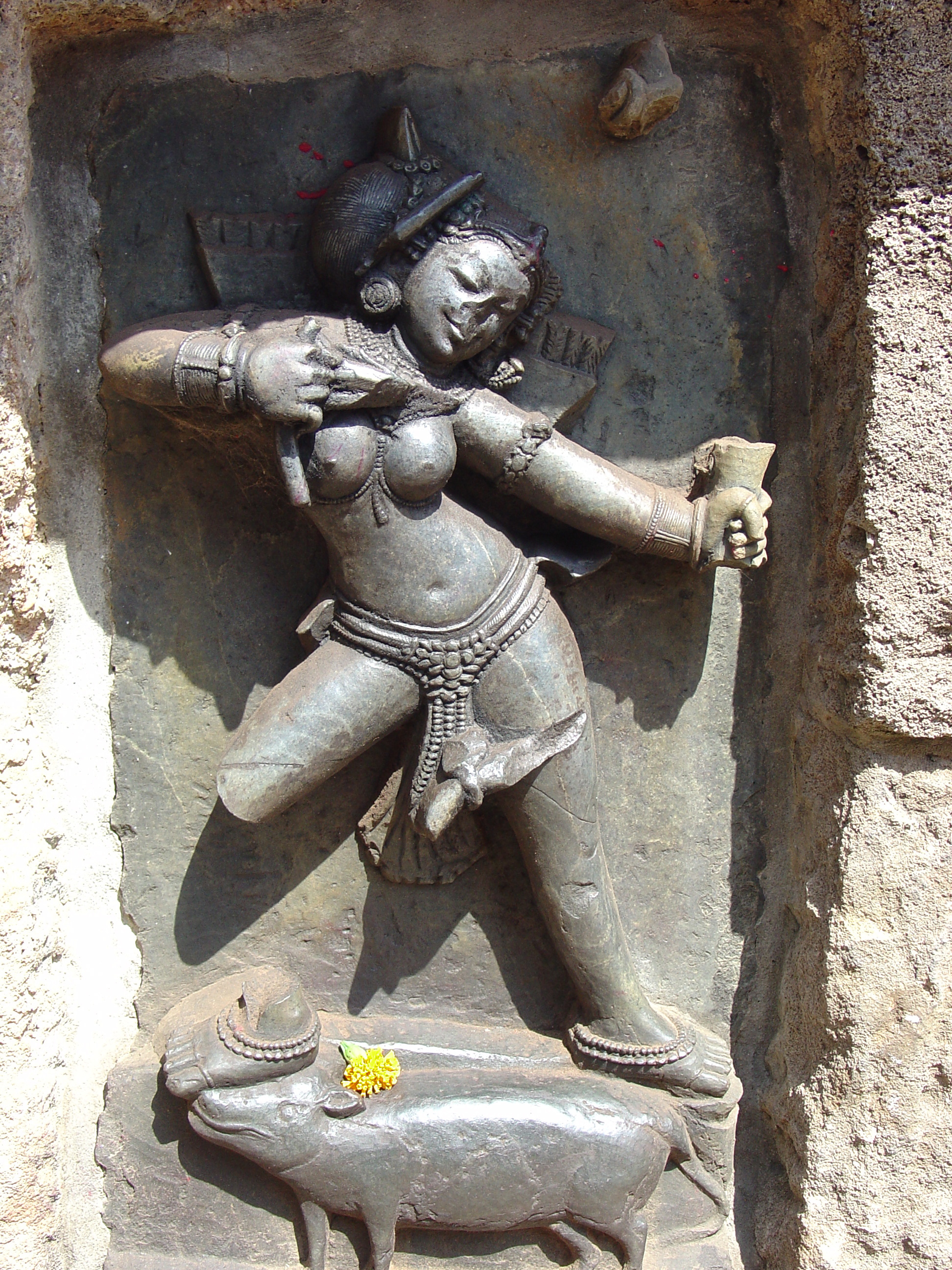 Kameshvari. Chausath Yogini Temple, Hirapur The female version of Kama, god of love and desire, is seen here as she draws the bow, his primary attribute. Her vehicle should be a parrot, but here is some other animal.